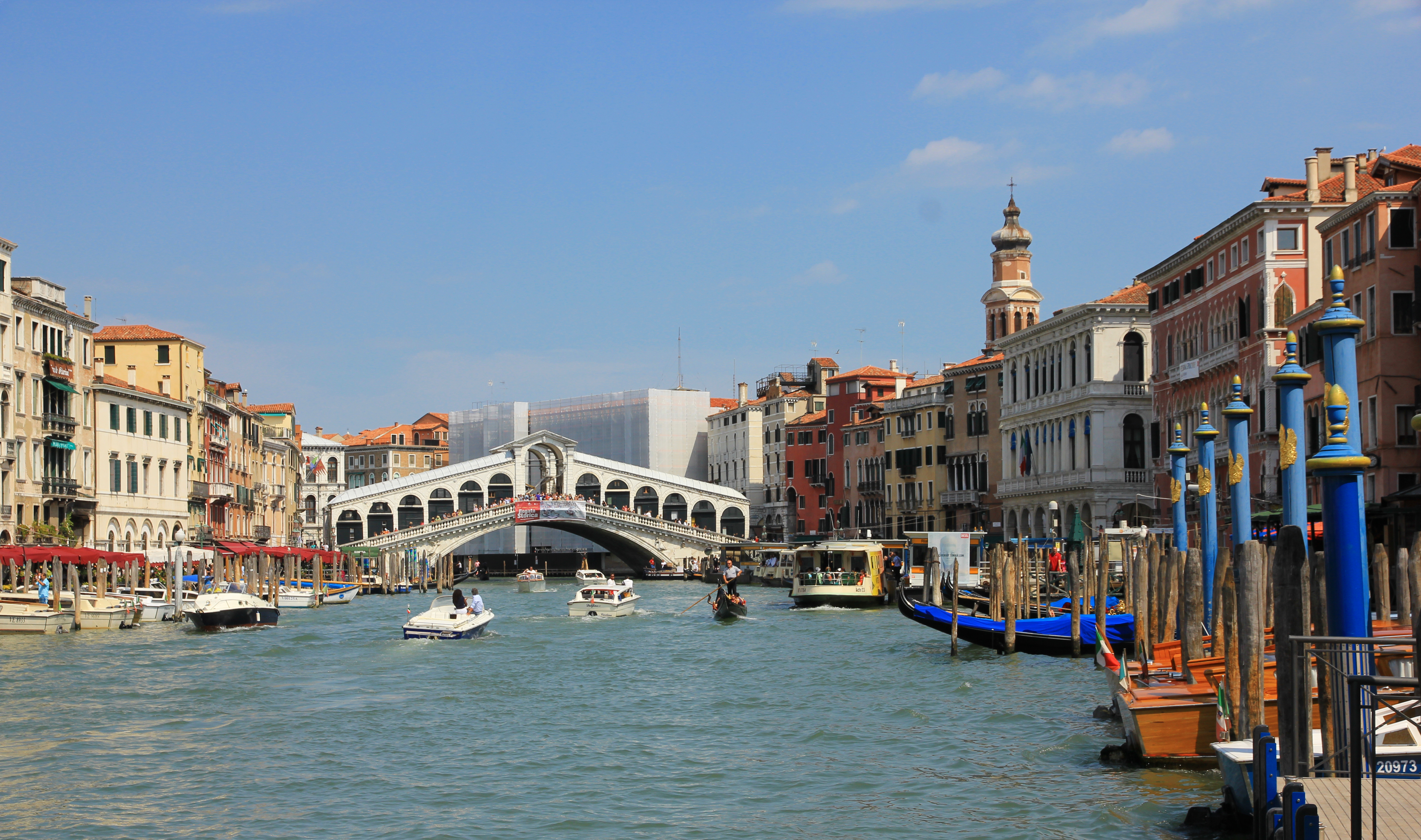 Canal Grande and Ponte di Rialto (Venice)